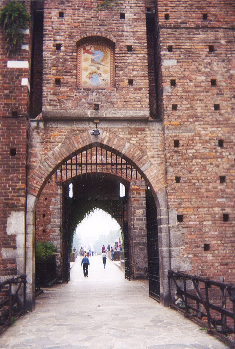 Exit from the Dukes' court in the Castello Sforzesco towards the Parco Sempione, Milano, Italia. Photo by Infrogmation, 1999.